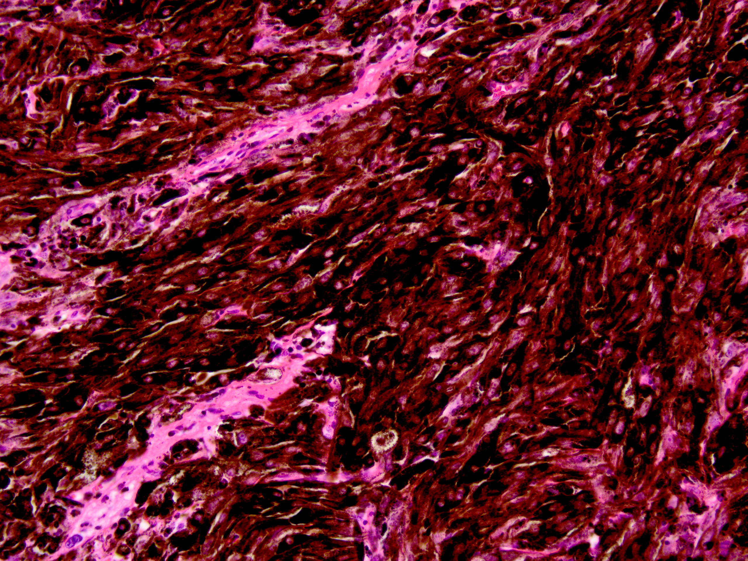 Histopathology of Melanocytoma with spindle cells heavily loaded with melanin (brown). H&E staining. Original magnification 200x